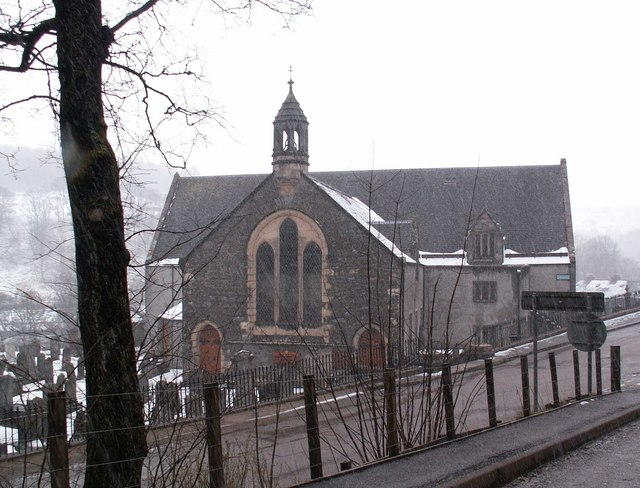 Mortlach Kirk. In Dufftown. I have preached here during a mission.